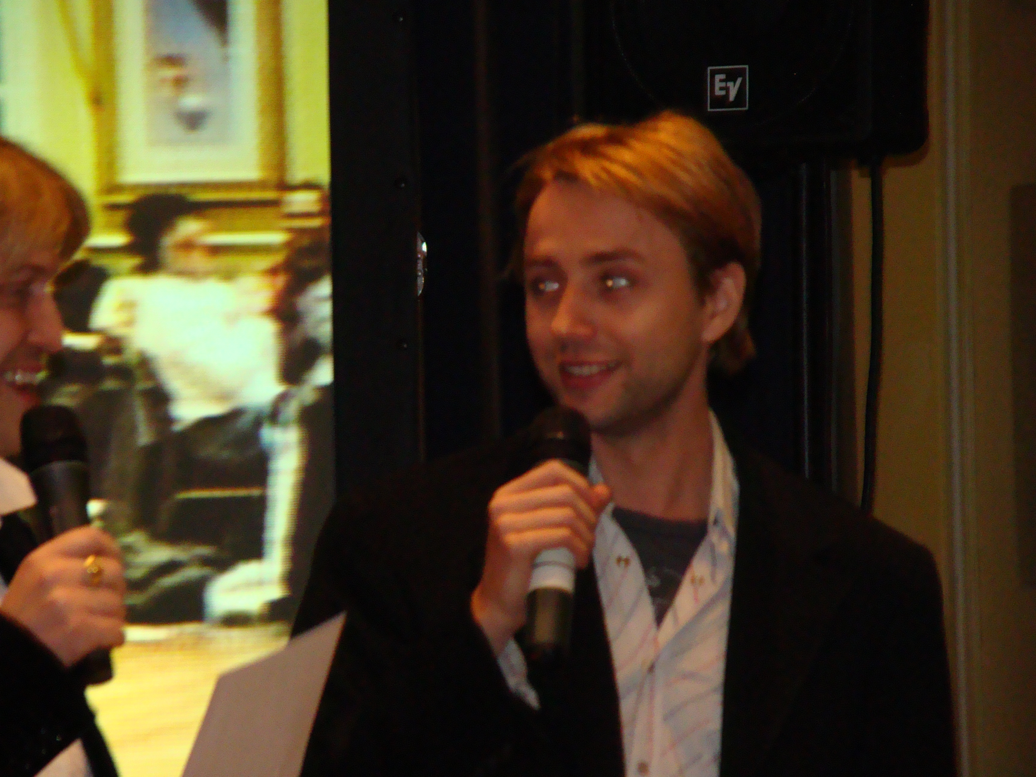 Vincent Kartheiser on November 28, 2009 in London Heathrow Airport, England, GB.